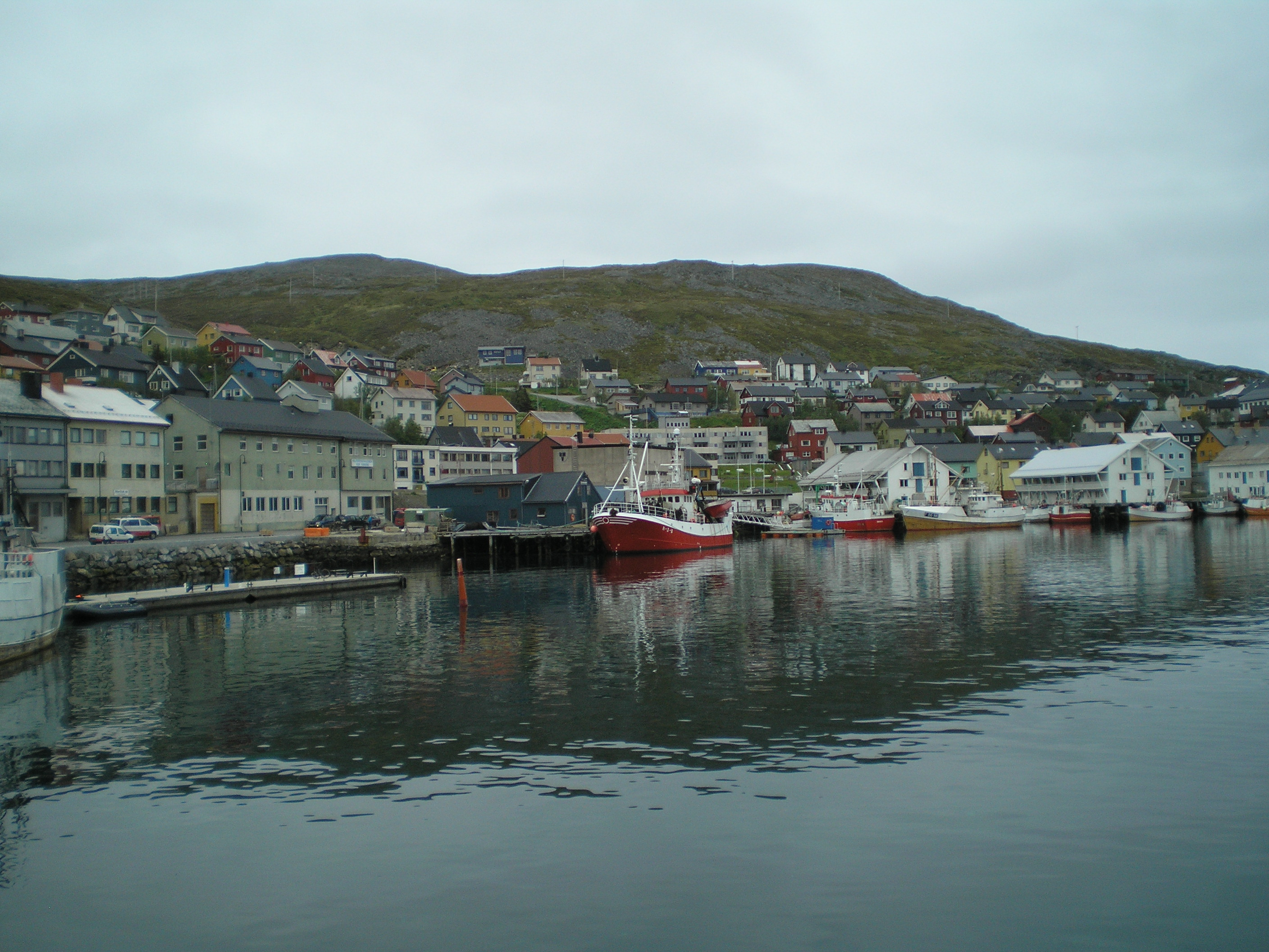 Honningsvåg, Norway